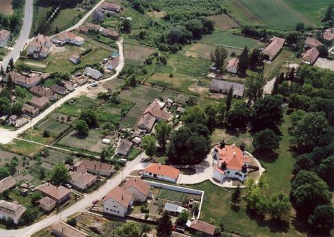 Mohora, Hungary, aerialphotography